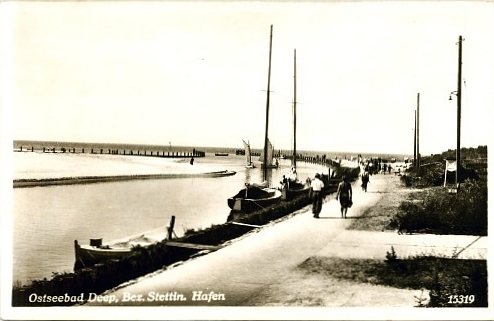 Estuary of Rega river in Mrzeżyno before II World War